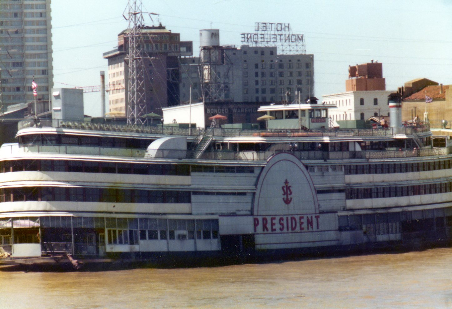 Riverboat "President" at New Orleans Mississippi River front, 1977.